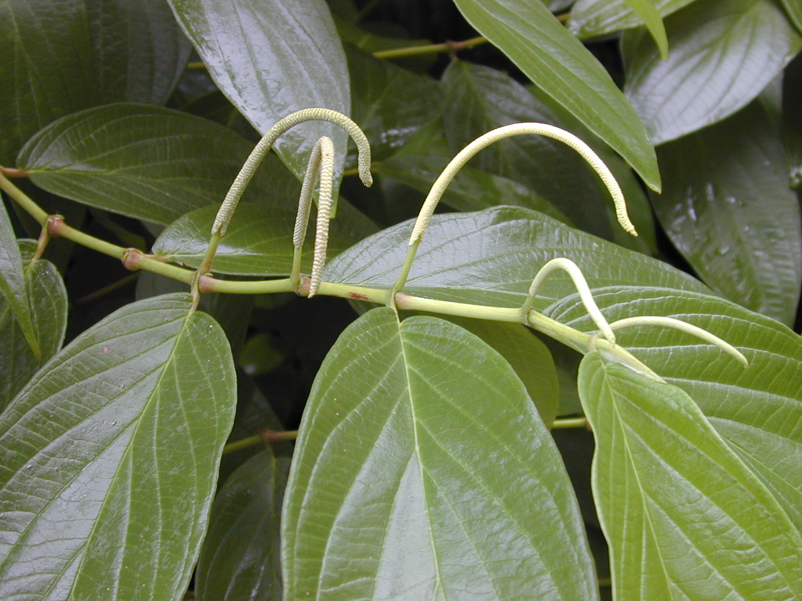 Piper aduncum (inflorescences). Location: Maui, Nahiku